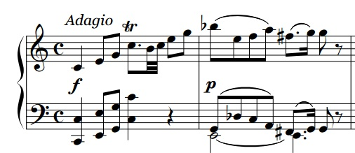 Transcribed by Jc1326 using Sibelius 6 on 17/01/2012.